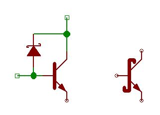 Left, the schematic for a Schottky-connected transistor. Right, the symbol for a Schottky transistor.